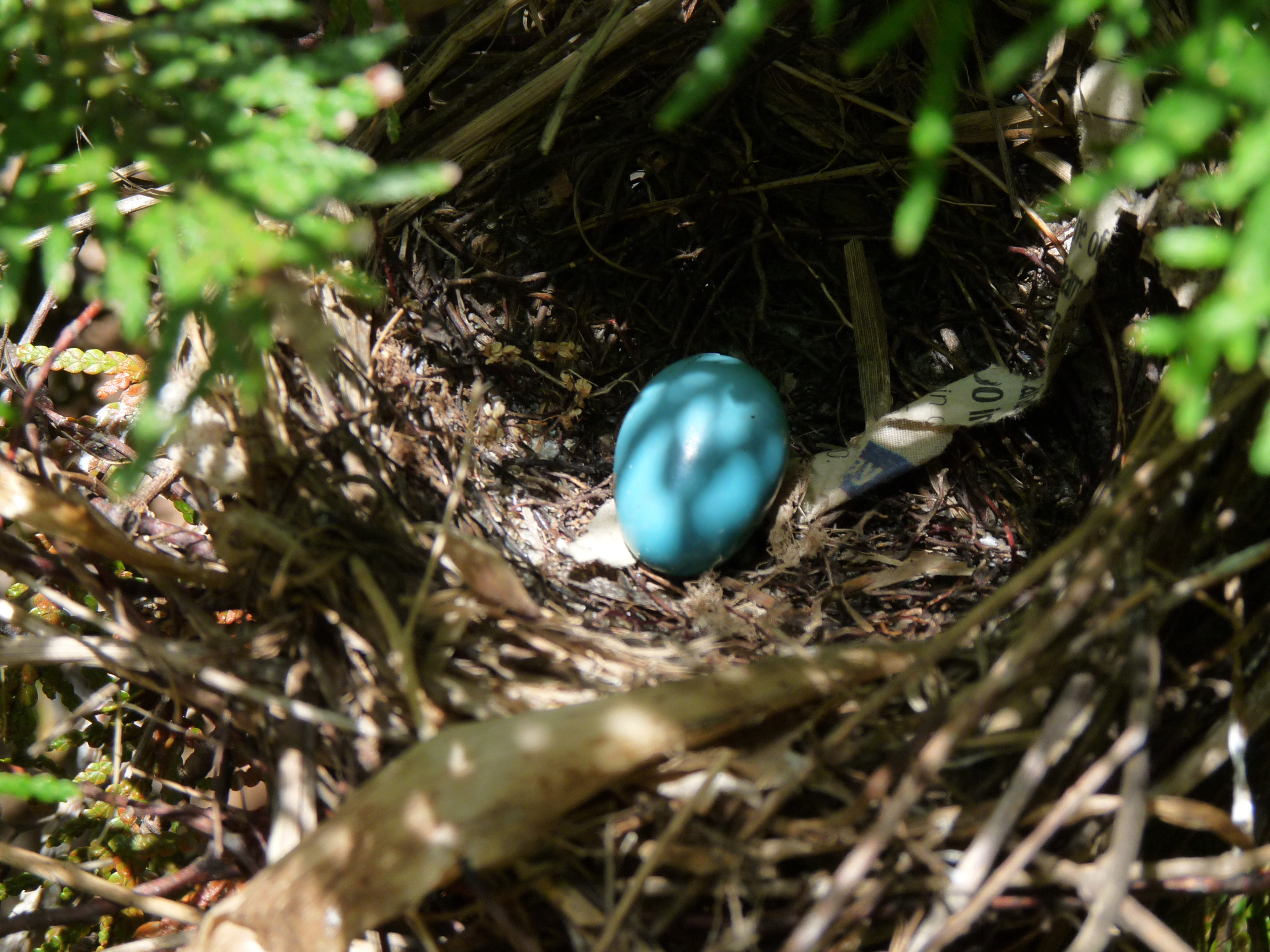 Nest and egg of a gray catbird, in a cedar shrub four feet above the ground. (Full disclosure: another egg had hatched and the chick left the nest while this egg had fallen out to the ground. I put this egg back in the nest for the photo, while the mother or father bird shrieked at me from a tree.)